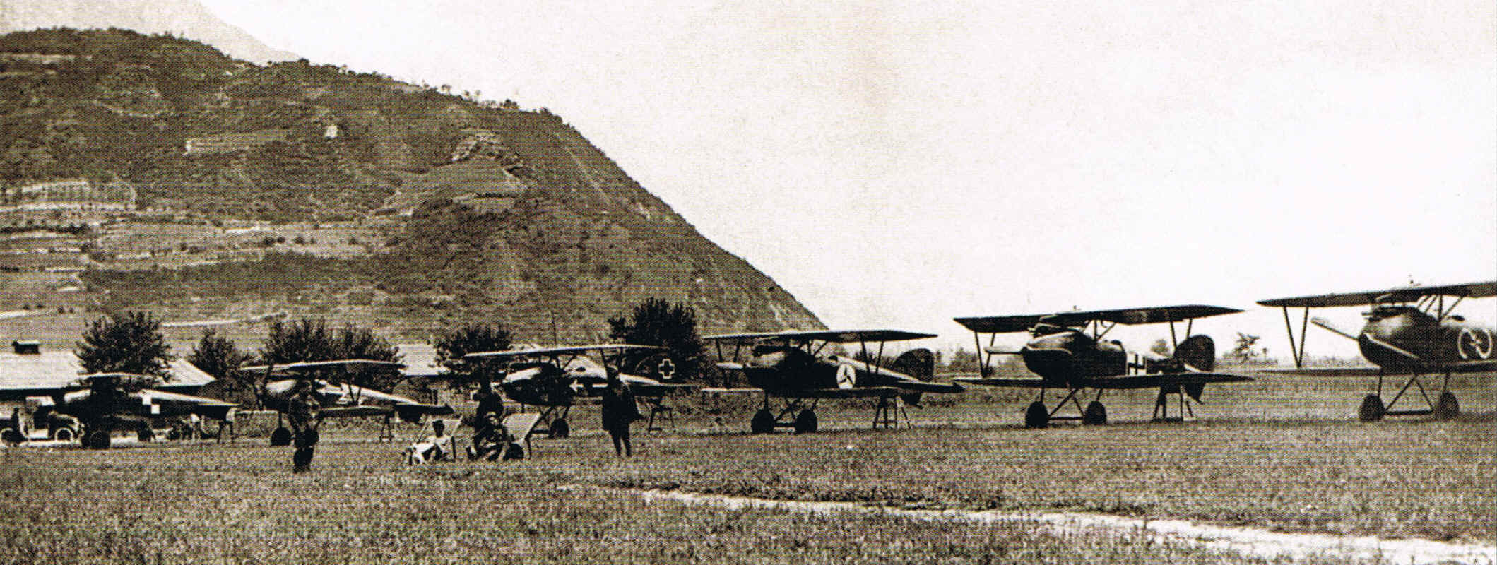 Albatros D.III (Oef) of Flik 3J on Romagnano airfield in the summer of 1918.